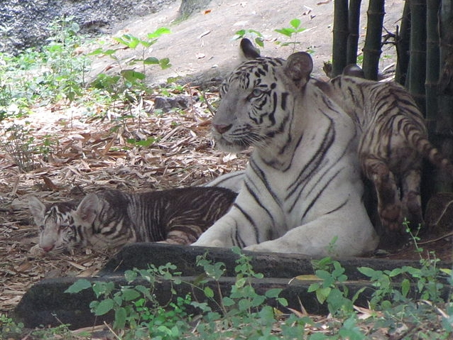 The White Tiger cub that turned Black with its mother at Arignar Anna Zoological Park, Chennai